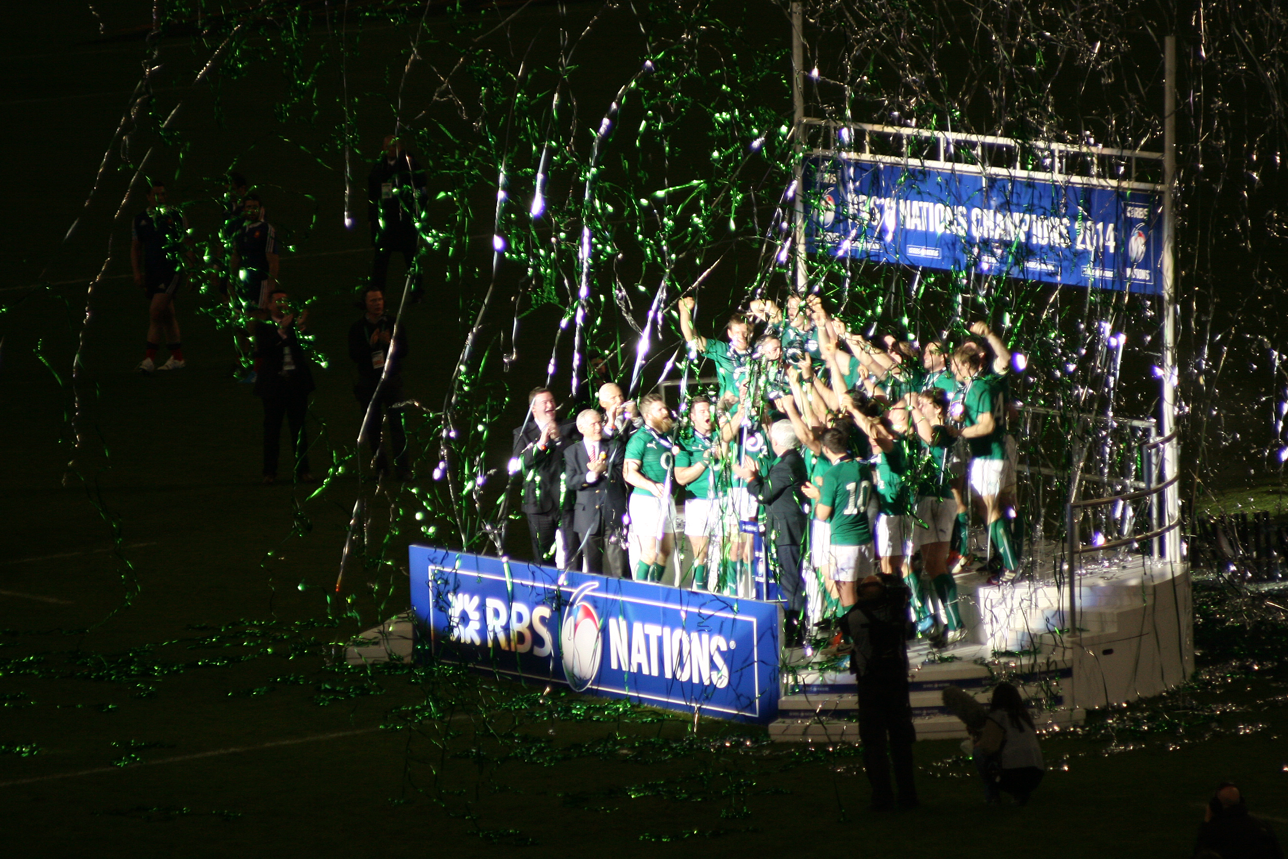 2014 Six Nations Championship, France vs Ireland. Ireland victory